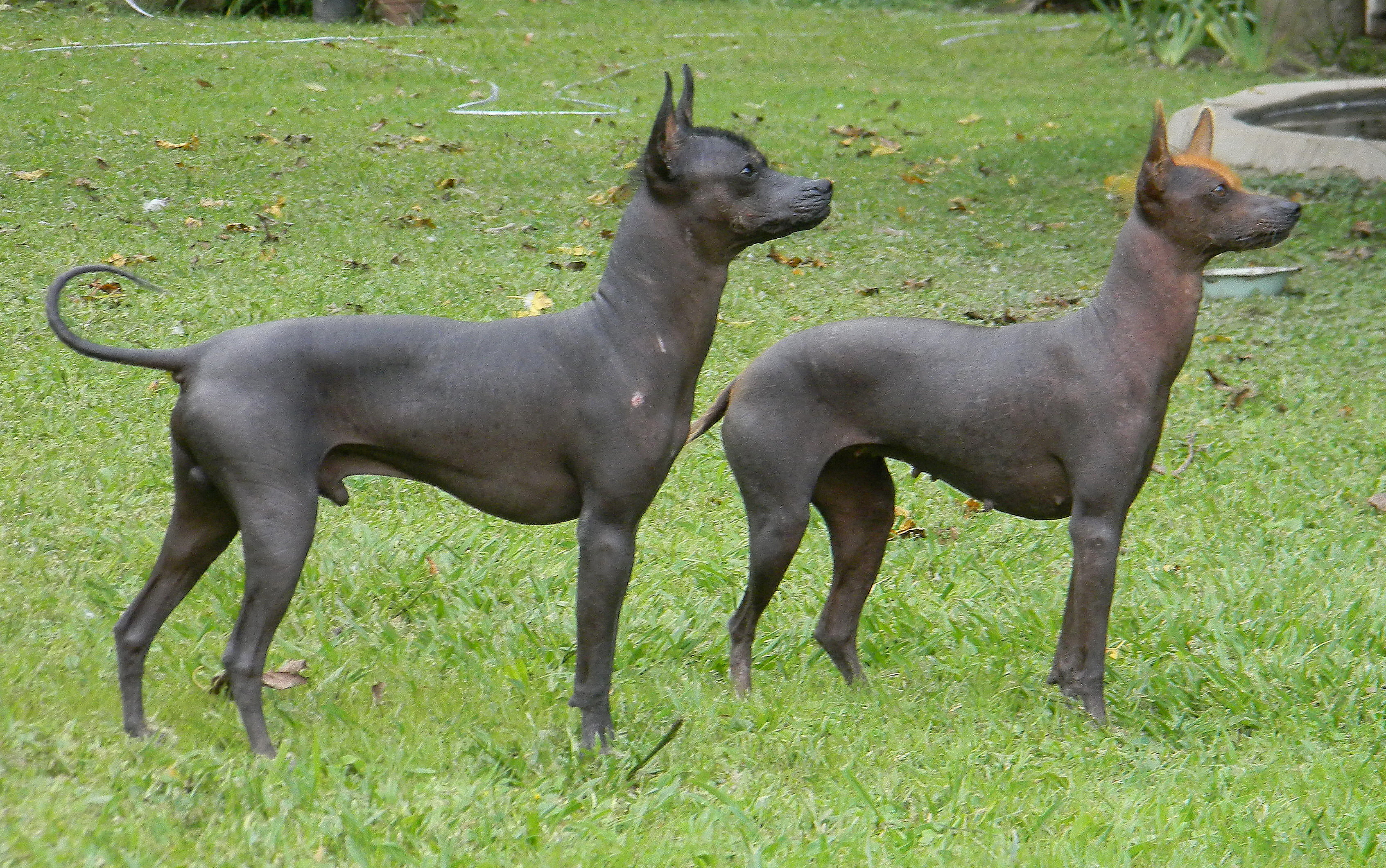 Félix & Fortuna de La Felisa, Small Pila Chaqueño, 34 and 33cm at the withers.